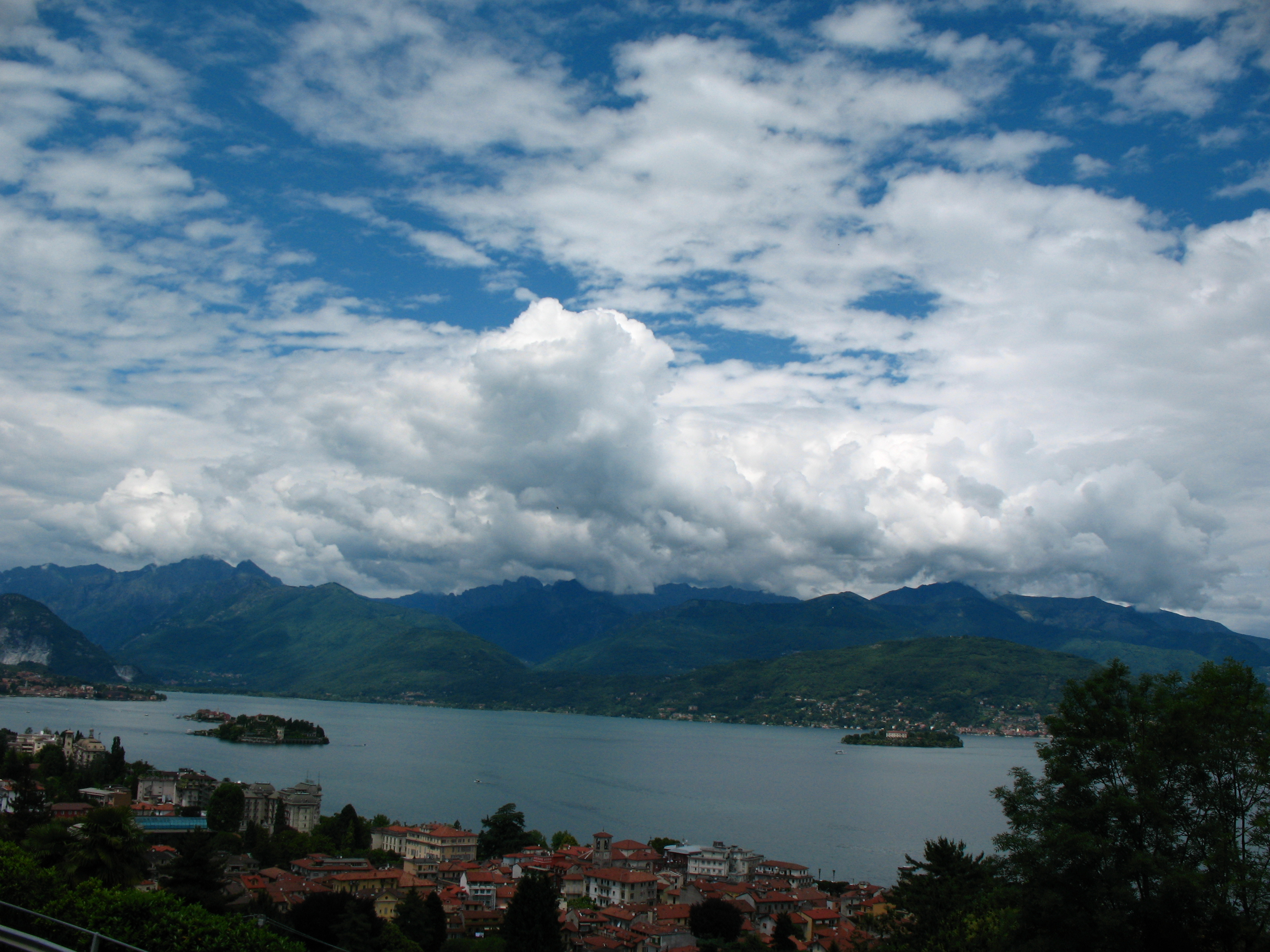 Lake Maggiore